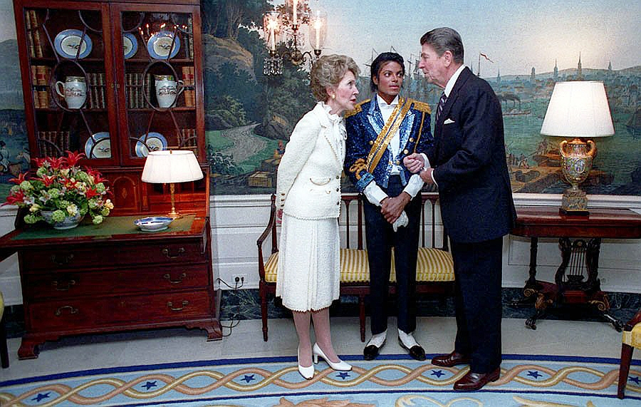 Michael Jackson visits Nancy and Ronald Reagan in the White House; May 14, 1984